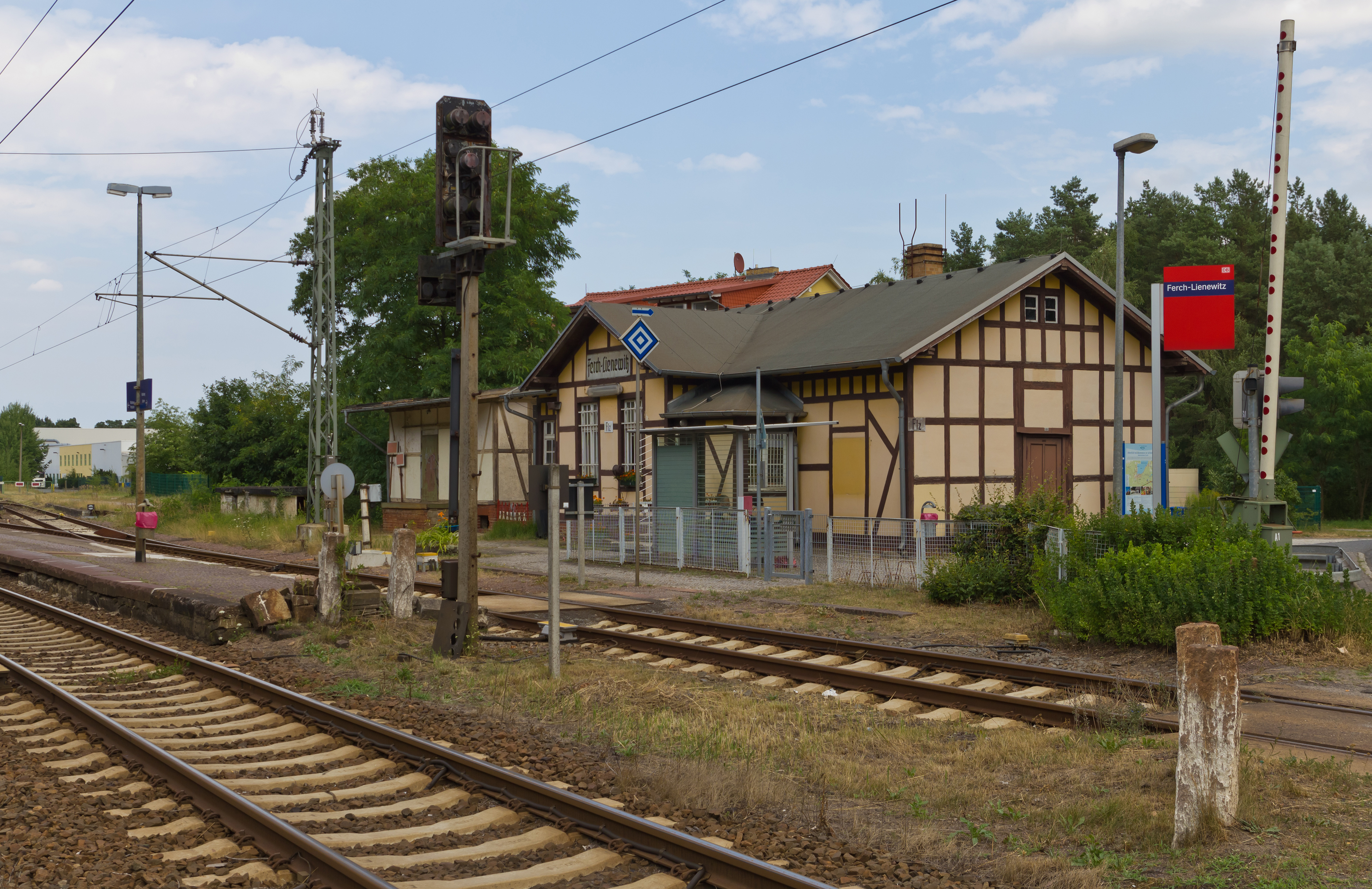 Train stop Ferch-Lienewitz, near Ferch am Schwielowsee, Brandenburg, Germany